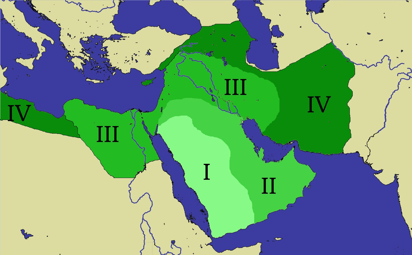 Expansion of the early caliphate under: I: Muhammad II: Abu Bakr III: Umar IV: Uthman ibn Affan Made by Bontenbal, with thanks to Danielm for the base map. Based on: Karen Armstrong, Islam, geschiedenis van een wereldgodsdienst (translation of Islam: A Short History). ISBN 90-234-1096-3